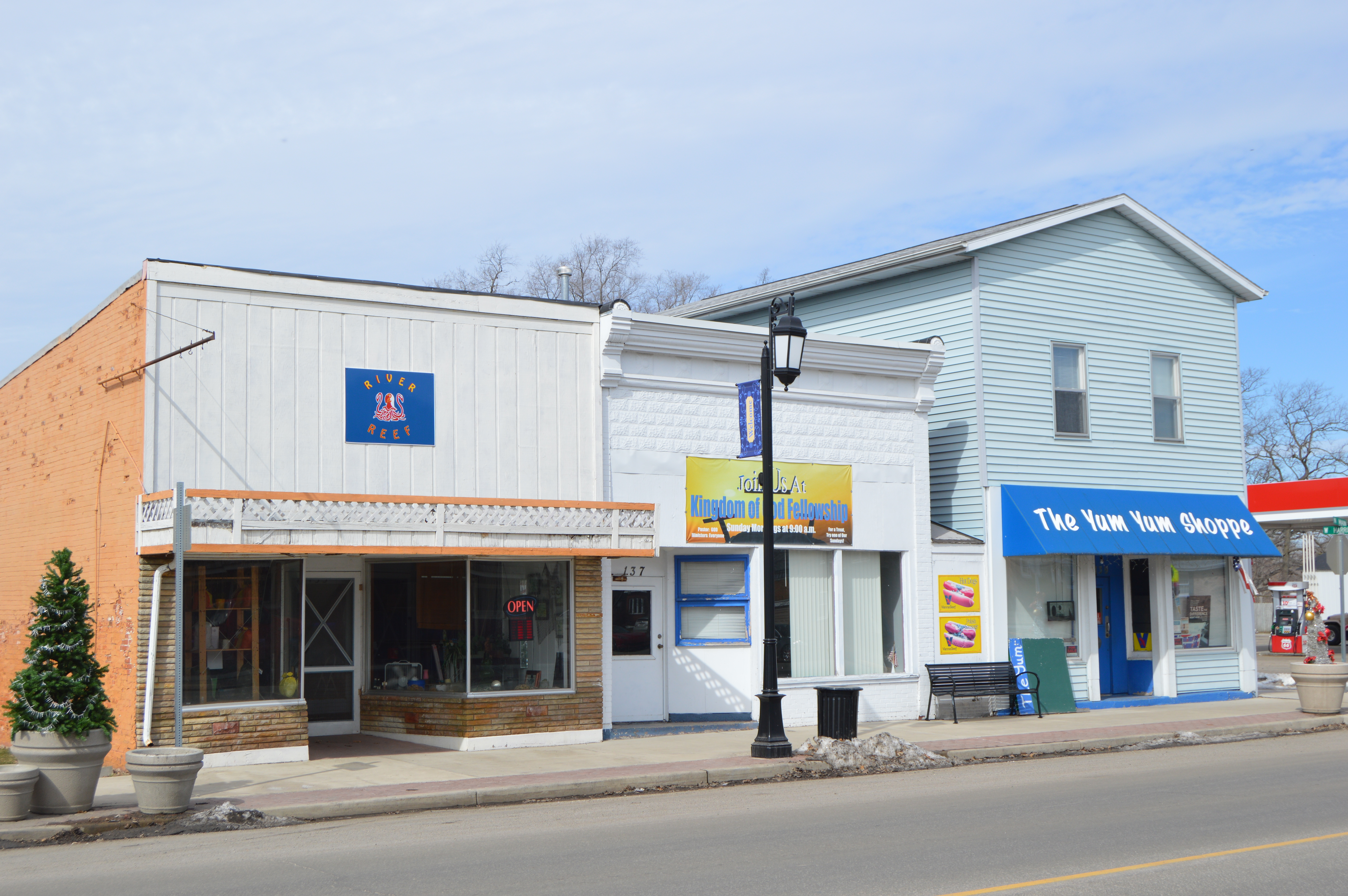 Buildings on the western side of Main Street (State Road 23) south of the Harrison Street intersection in North Liberty, Indiana, United States. This block is part of the North Liberty Historic District, a historic district that is listed on the National Register of Historic Places.